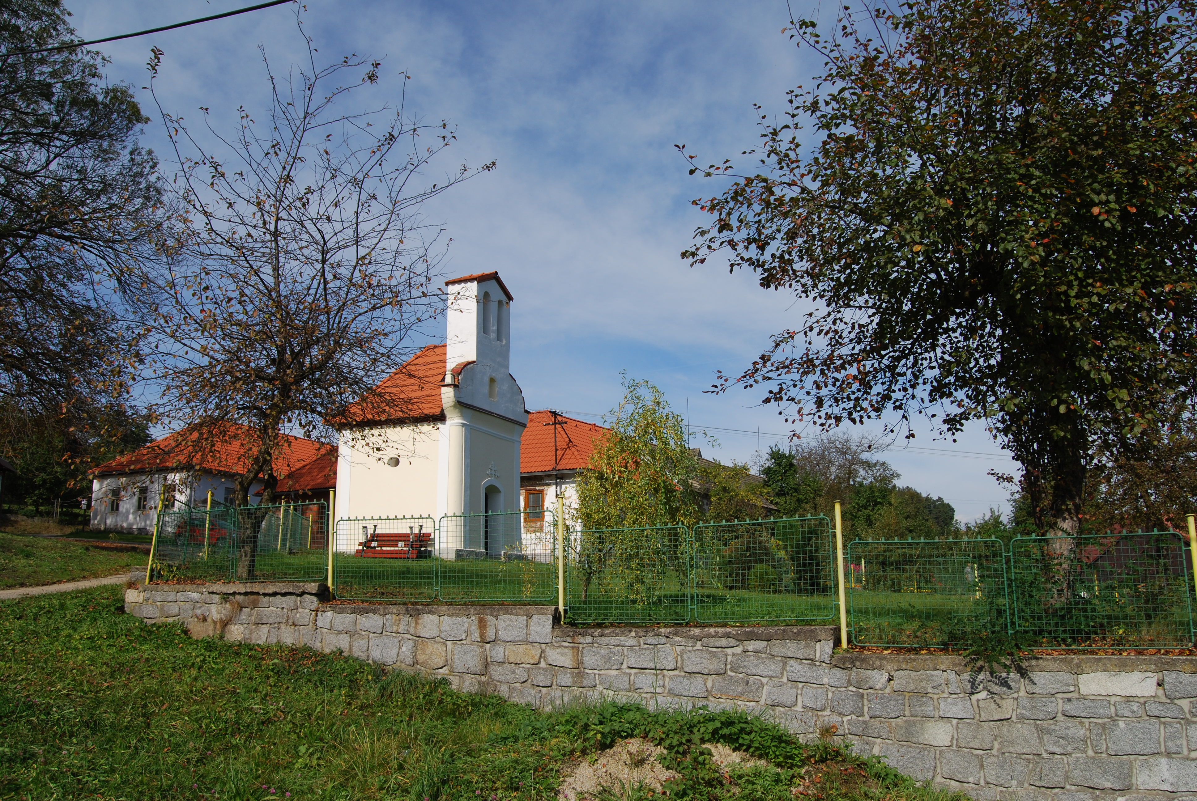 Vrbice, part of Hracholusky village in Prachatice District, Czech Republic.